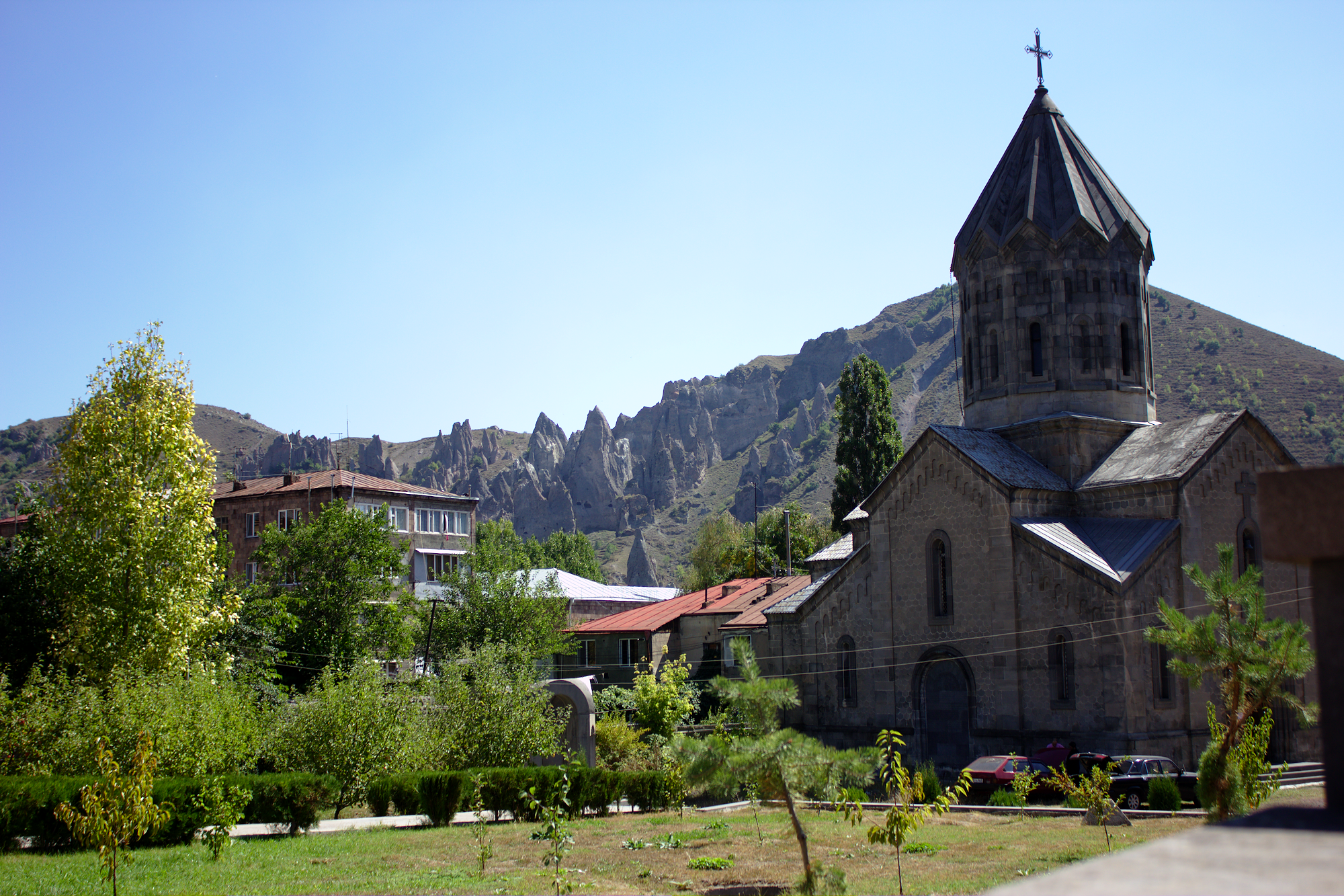 St. Grigor Lusavorich Church in Goris 3/126